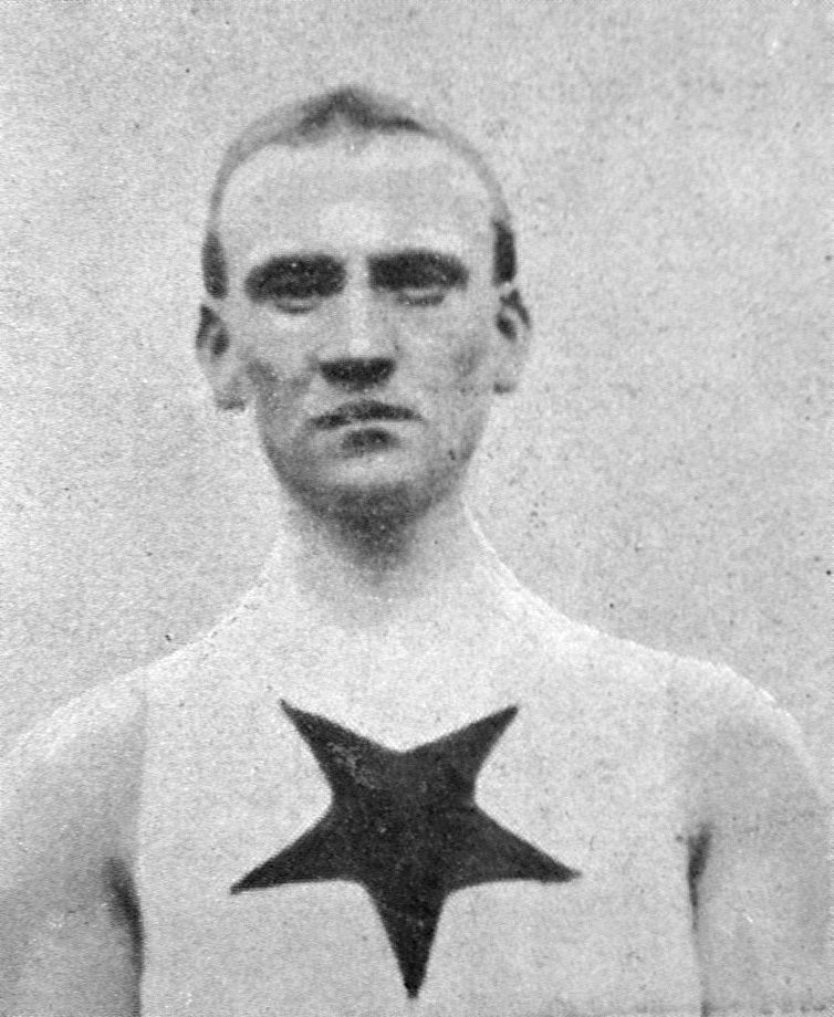 Arnošt Nejedlý - SK Slavia